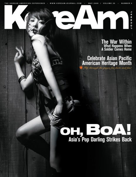 Magazine cover of KoreAm from May 2009, South Korean singer BoA